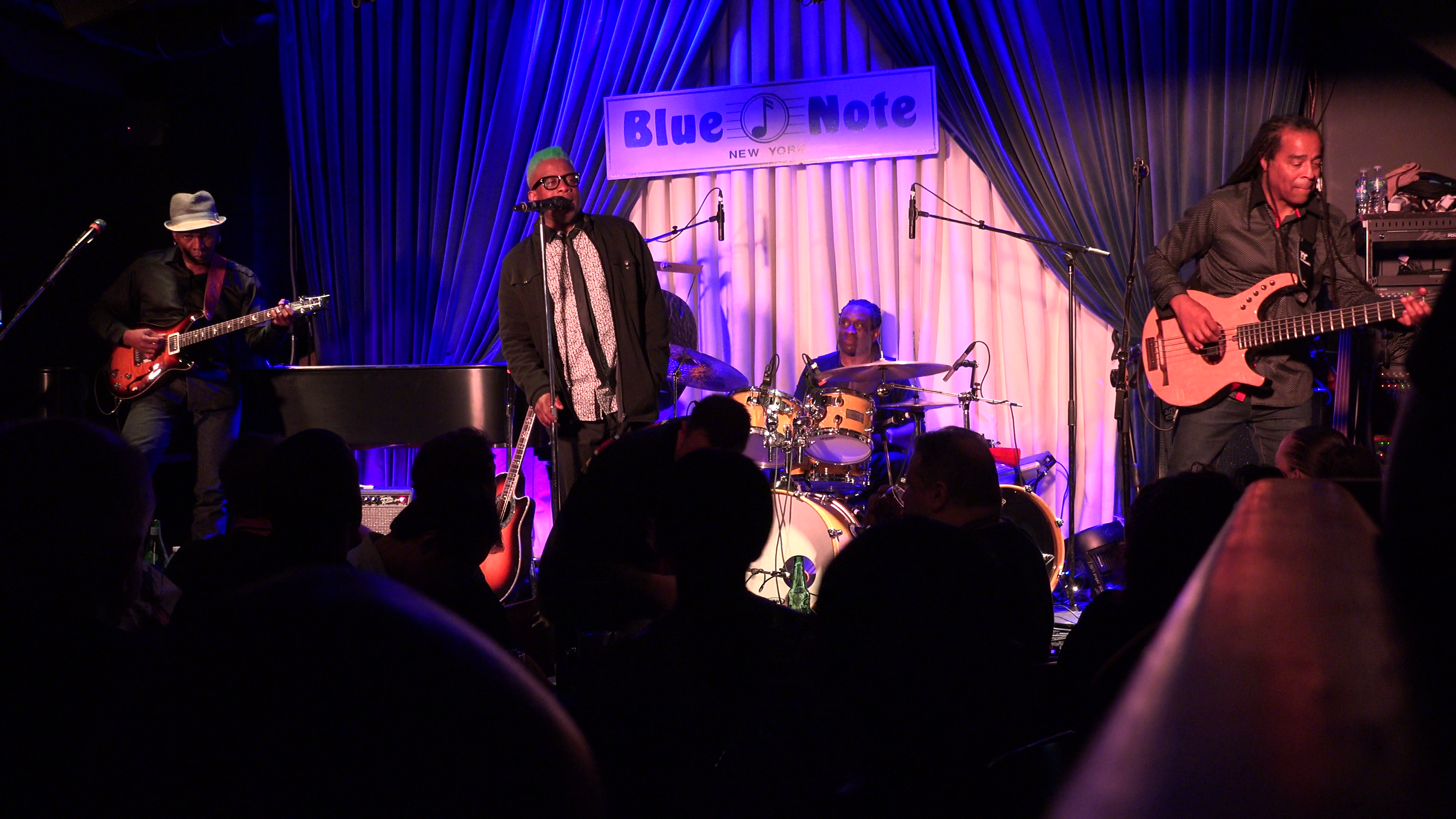 Living Colour live at the Blue Note in New York City